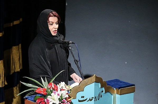 نغمه ثمینی در دیدار رئیس جمهور با هنرمندان